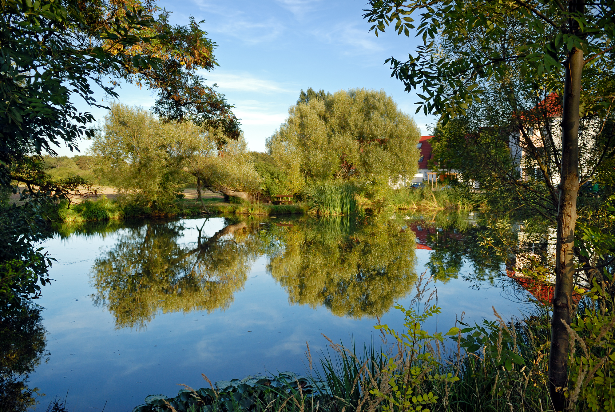 This image shows the pond in the district Ernsee in Gera, Germany.